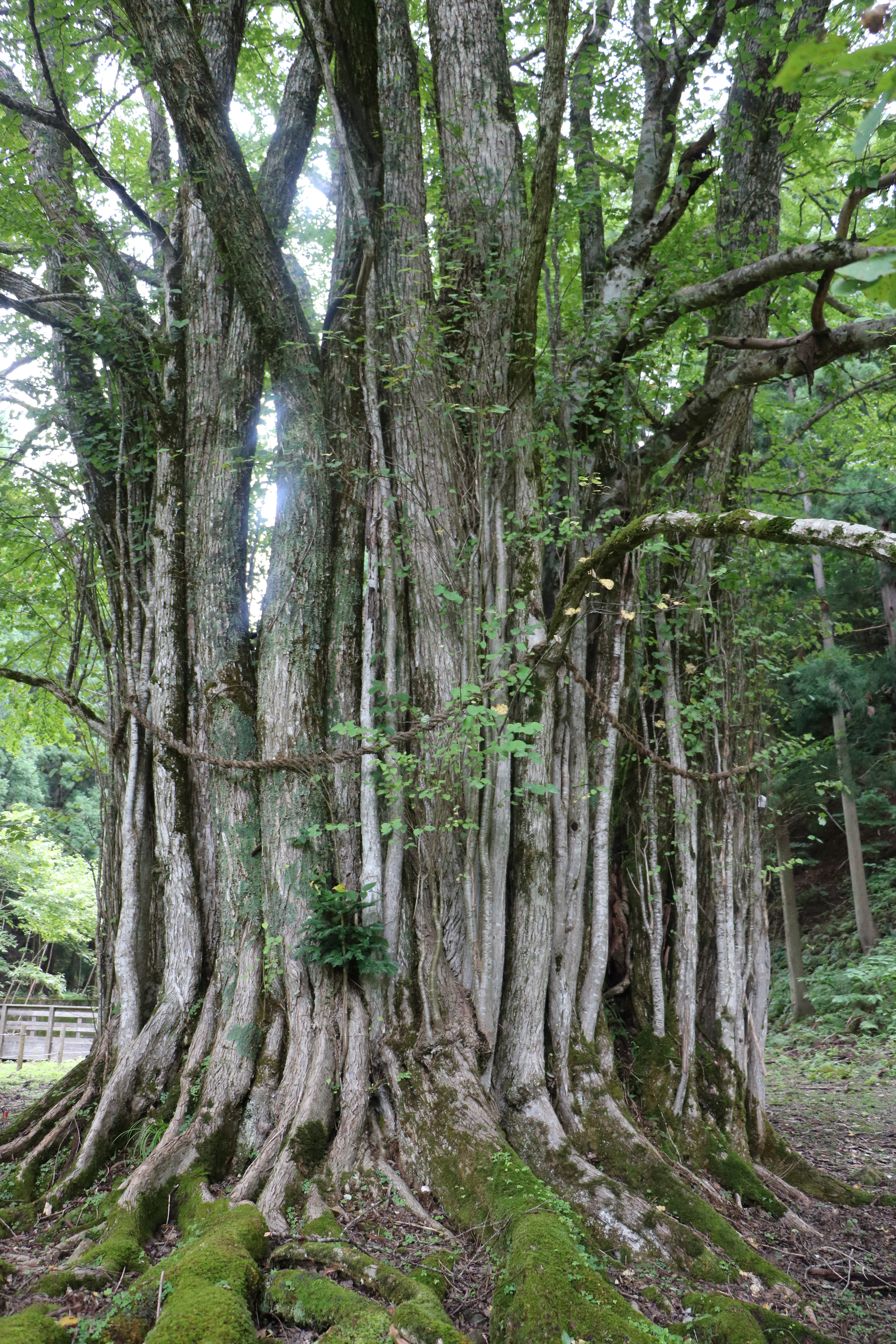 Itoi-no-Okatsura